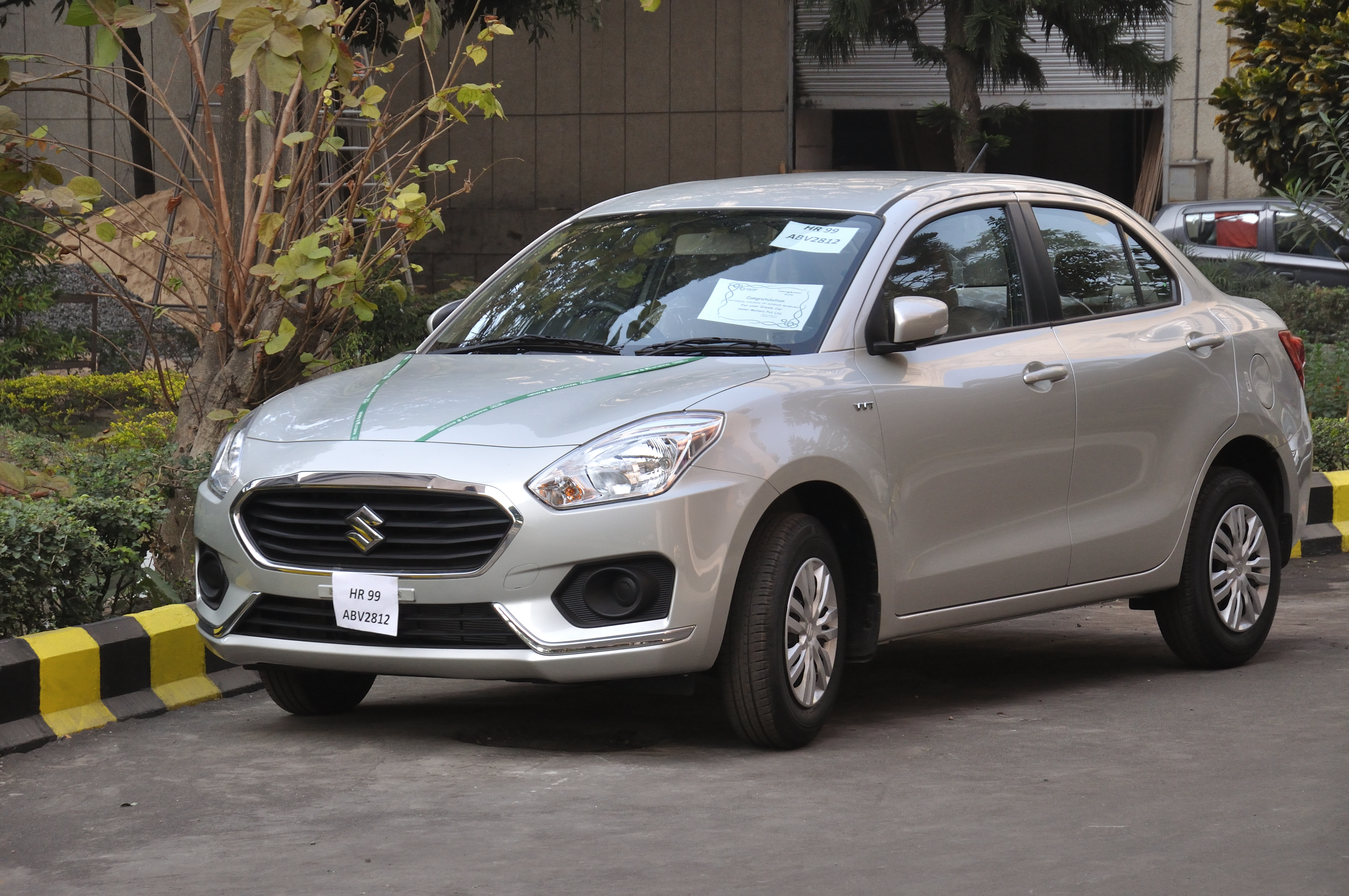 This photograph was taken in West Bengal.